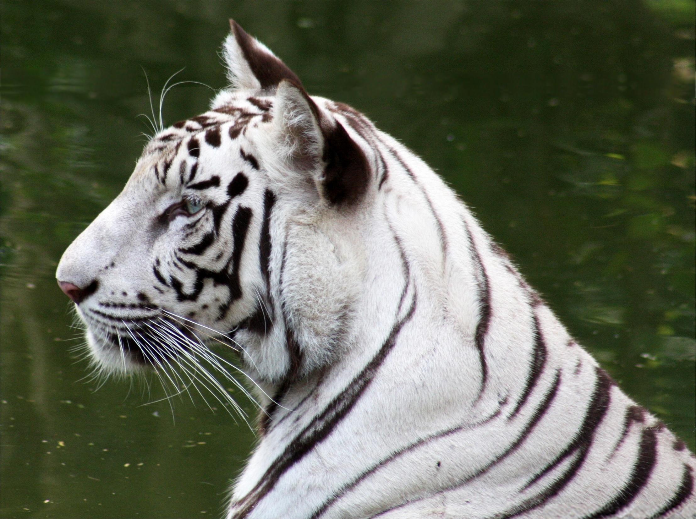 Photograph of a white tiger taken at the New Delhi Zoo, India